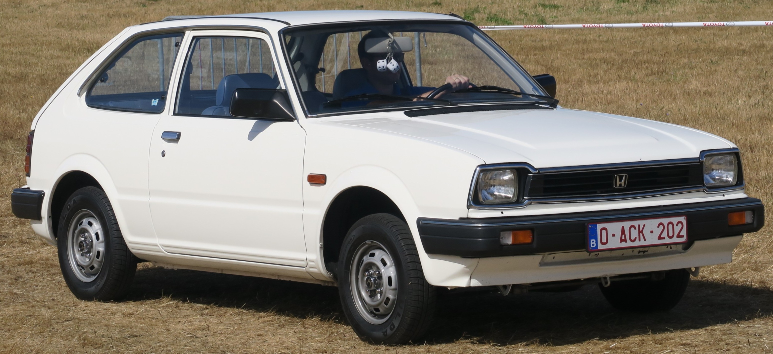 Honda Civic